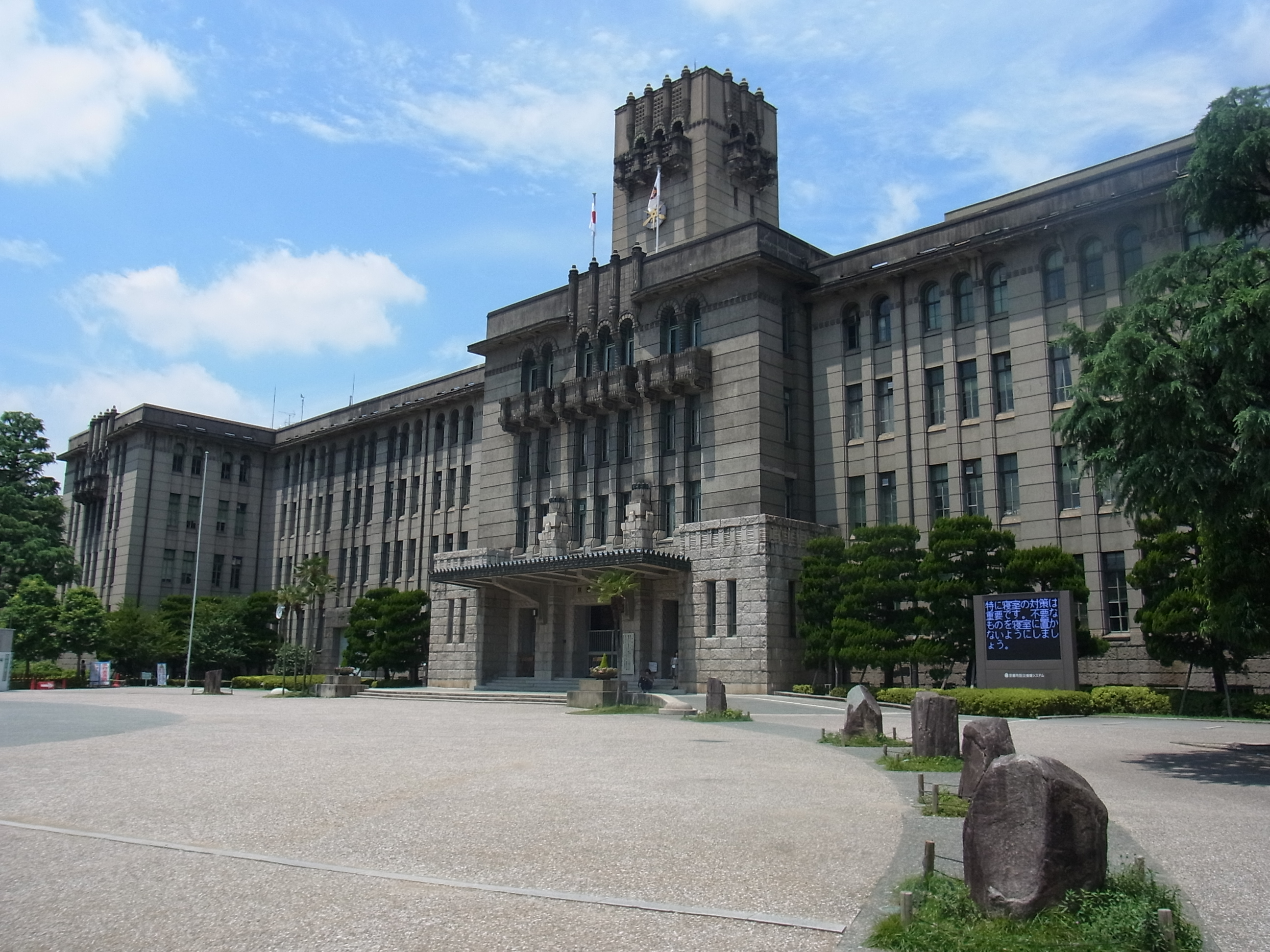 京都市役所 Kyoto city hall